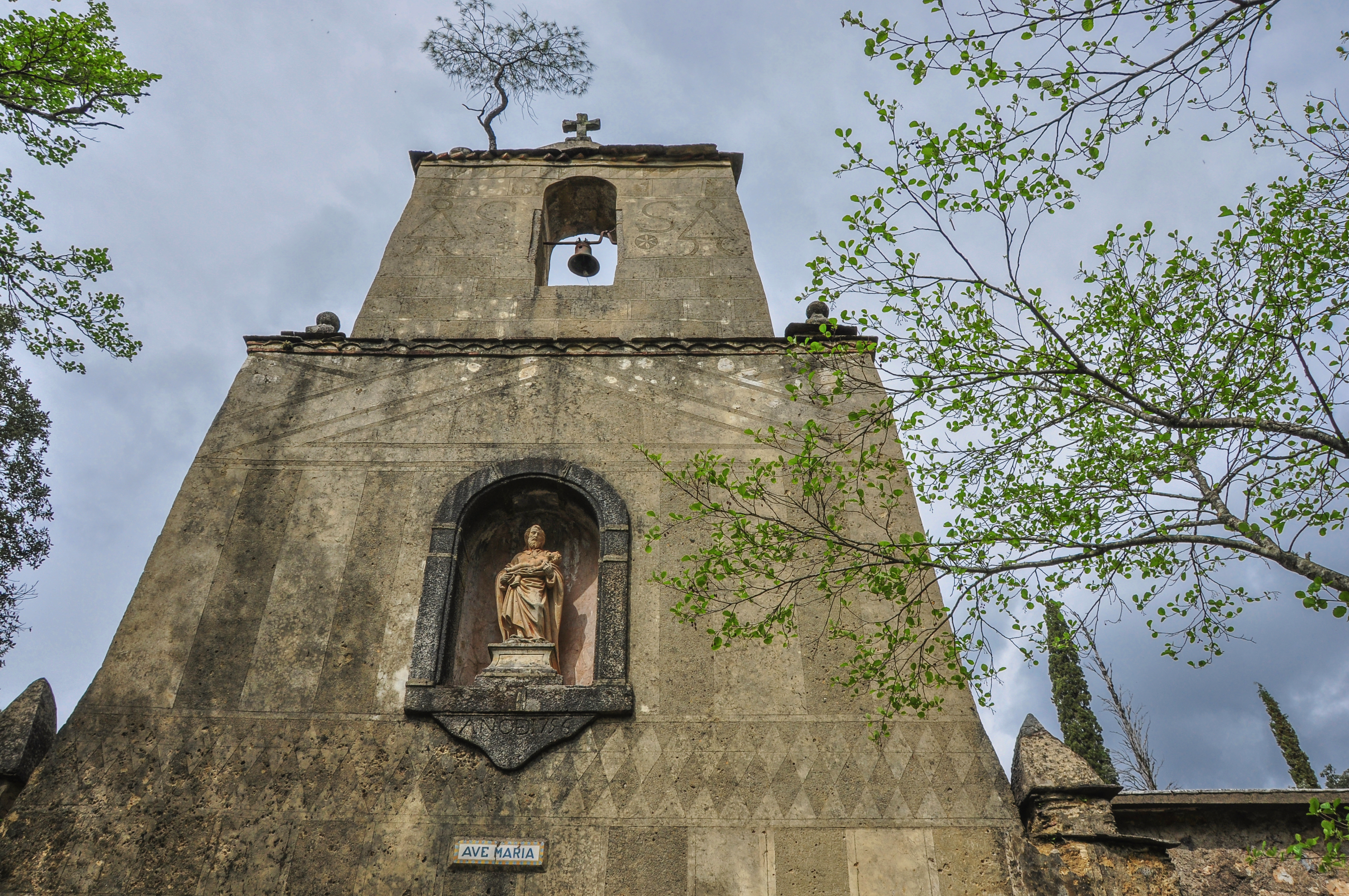 This is a photography of a Special Area of Conservation in Spain with the ID: ES4150107. Natura2000 entry, EEA entry